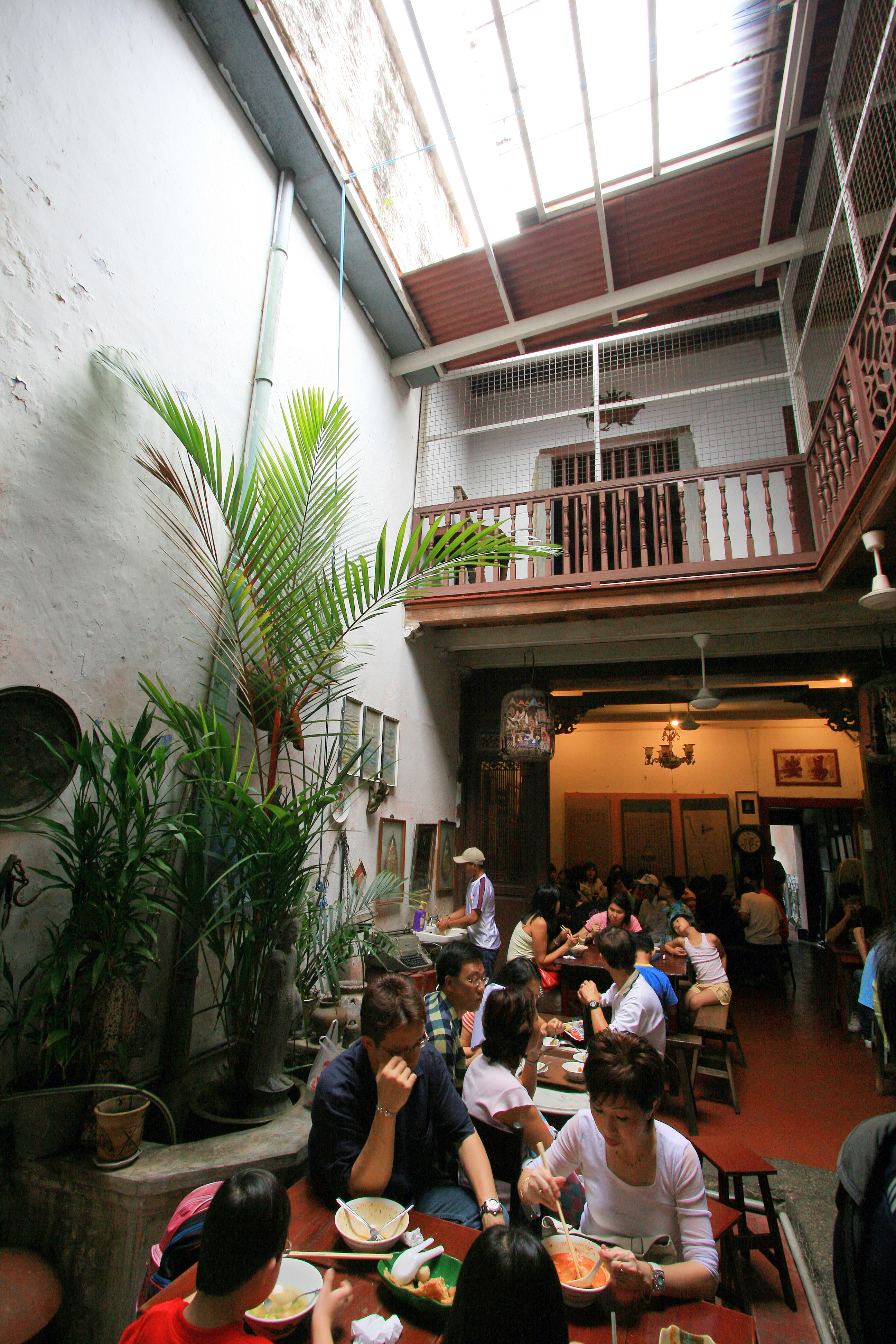 Courtyard of a Shophouse in Malacca, Malaysia.